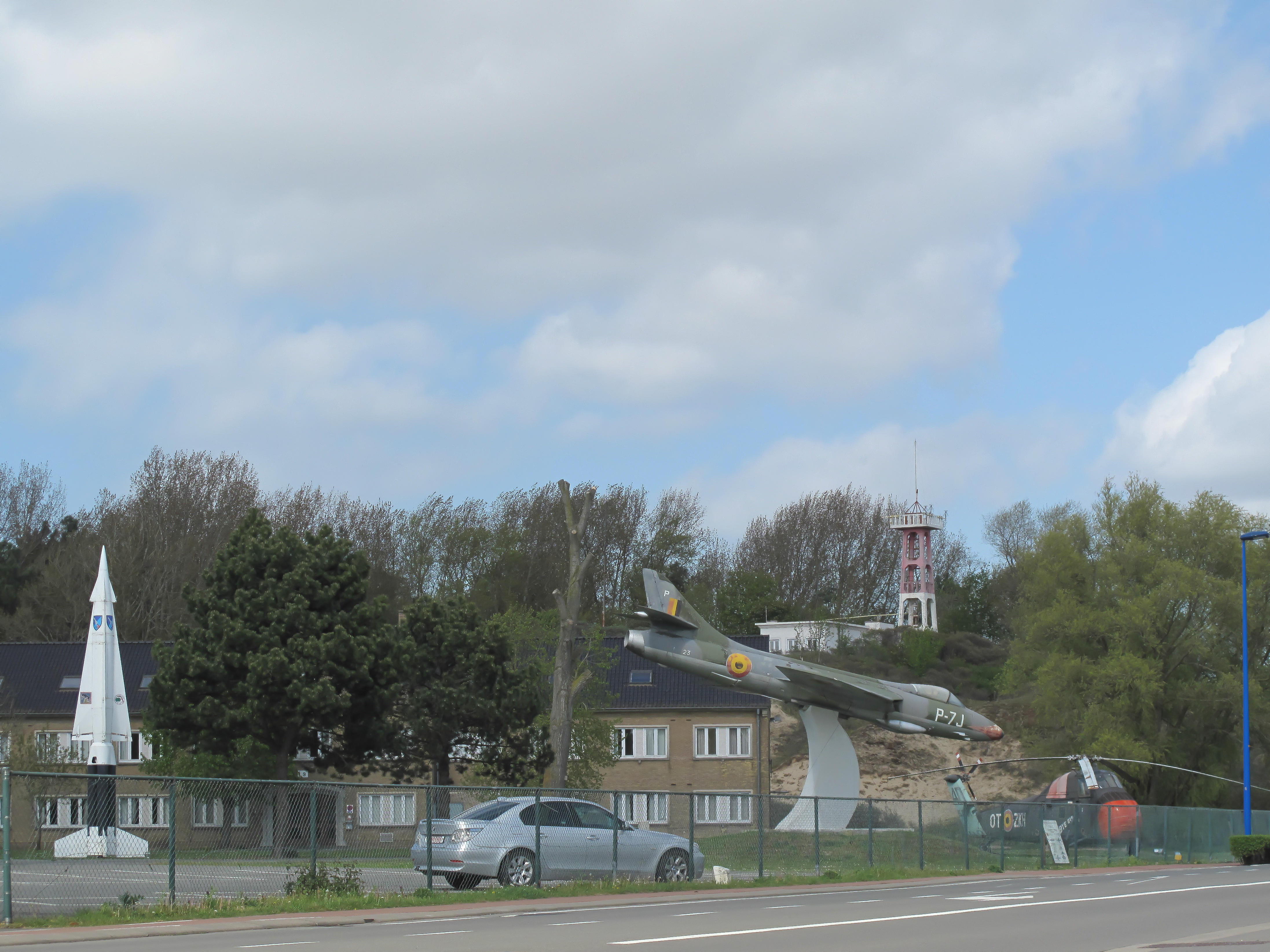 between Koksijde and Veurne, air-field